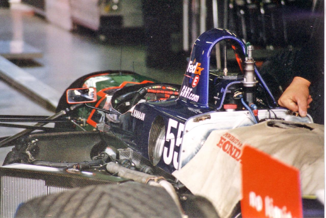 Tony Kanaan's #55 Mo Nunn Racing car